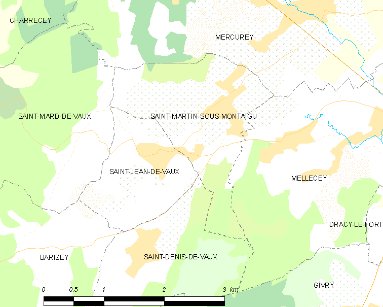 Map of French municipality